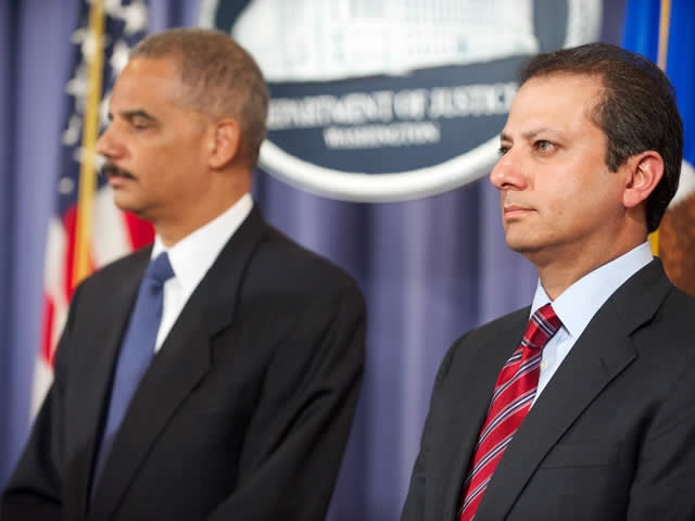 U.S. Attorney for the Southern District of New York Preet Bharara waits with Attorney General Eric Holder to announce charges related to a plot directed by elements of the Iranian government to murder the Saudi Ambassador to the United States